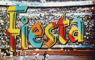 Cropped screenshot of the film title from the trailer for the film Fiesta.